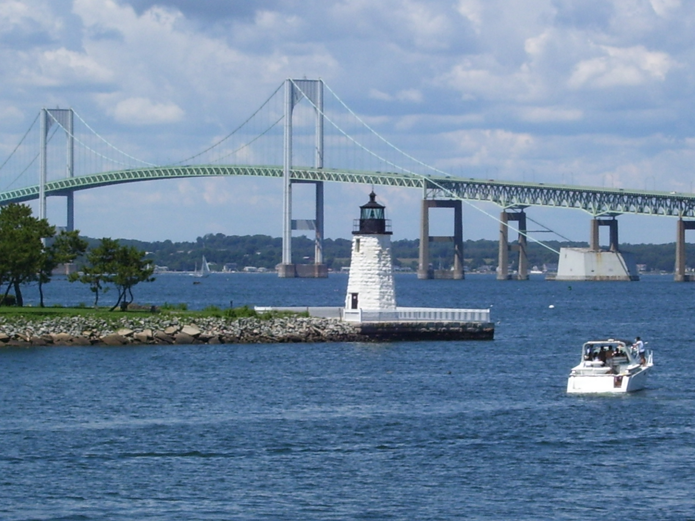 created and released by me